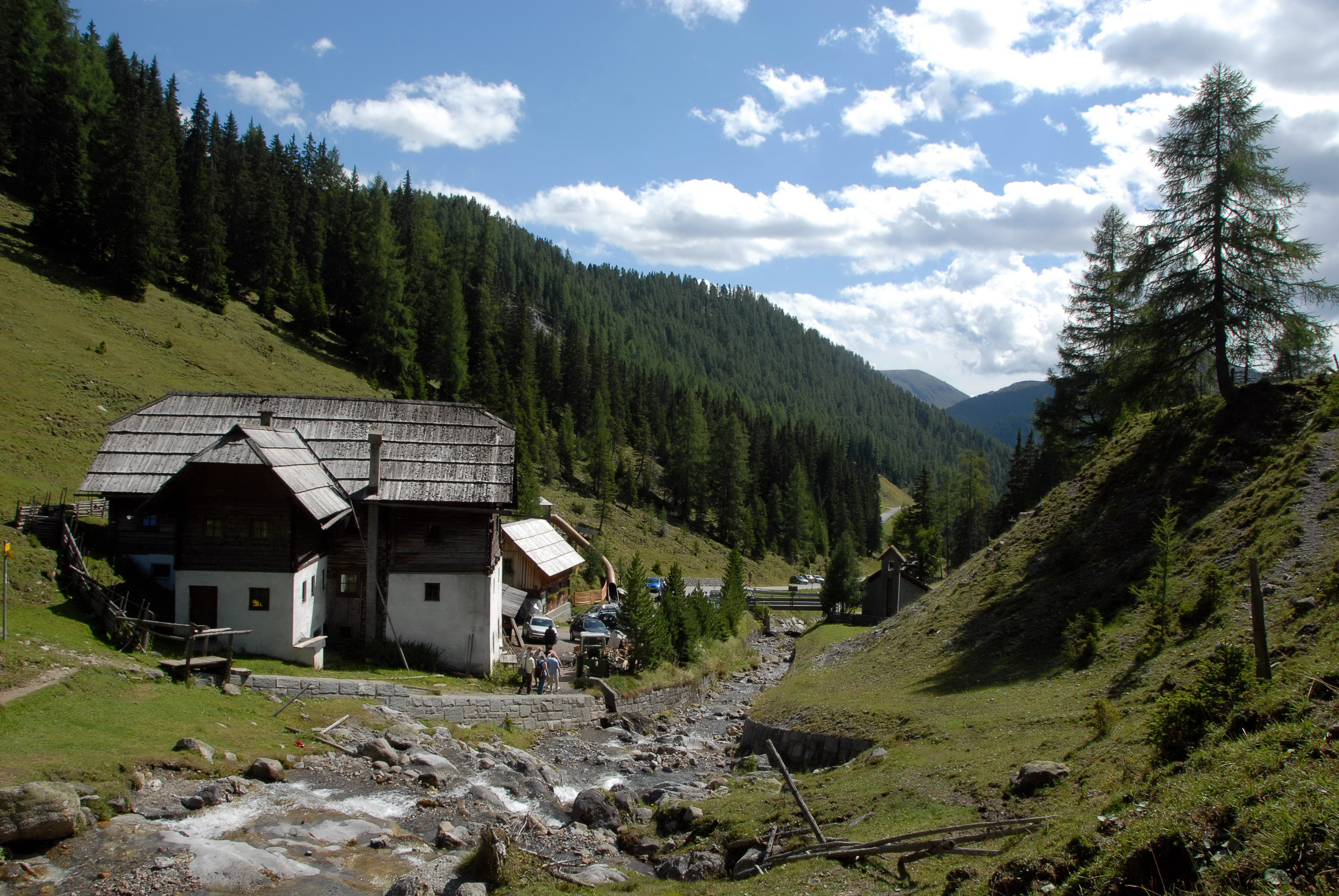 Karlbad, old natural bath in the national park Nockberge, Northern Carinthia, Austria